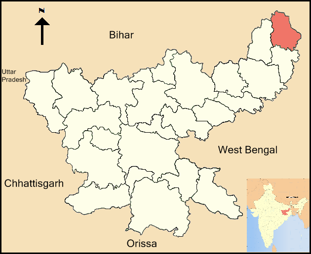 A locator map of Sahebganj district of Jharkhand state.